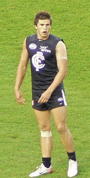 Marc Murphy, Australian rules footballer